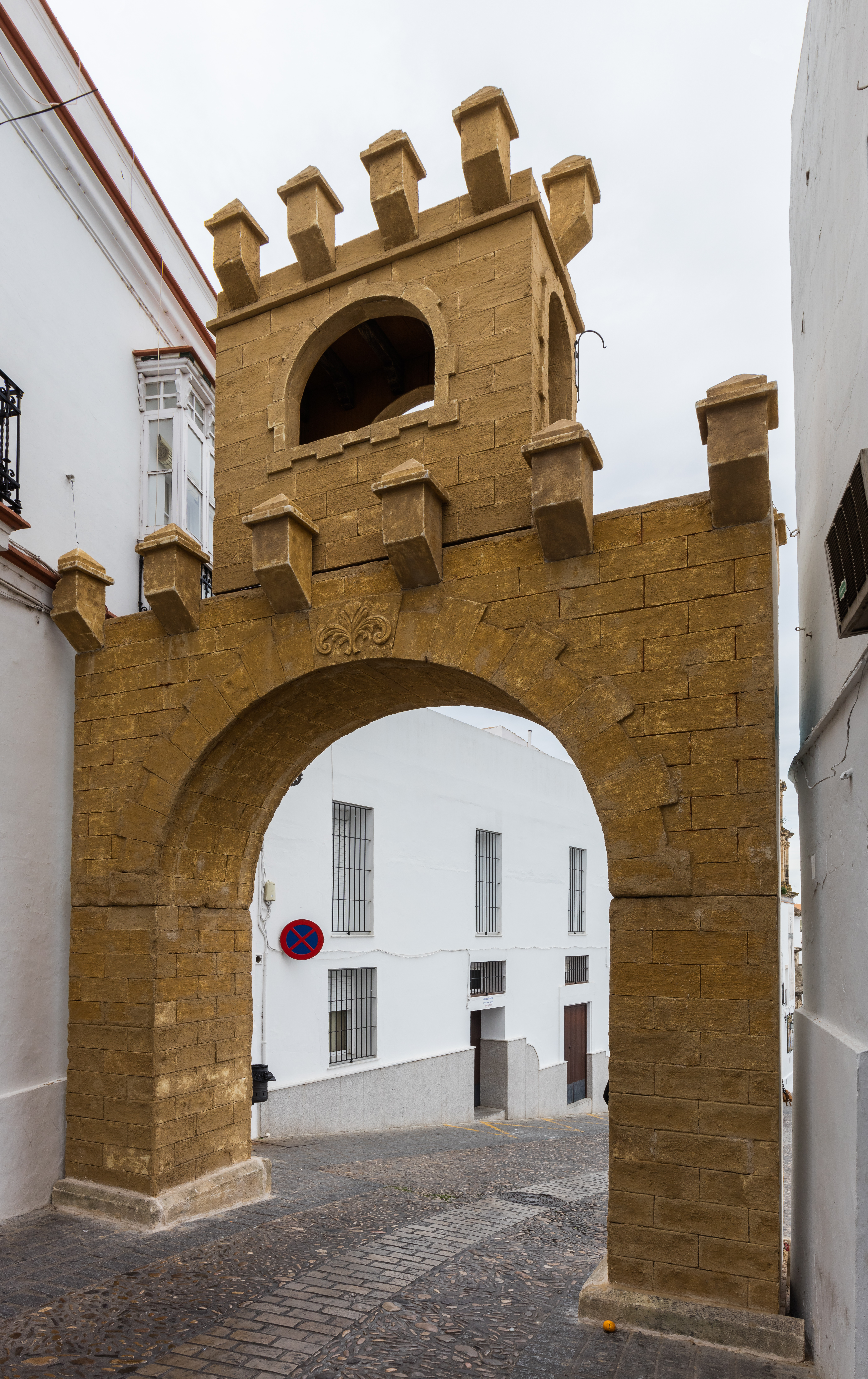 Puerta de Jerez, Arcos de la Frontera, Cádiz, Spain